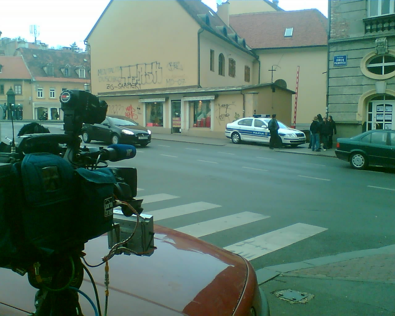 The parking lot in Palmoticeva, two days after Ivo Pukanić, the head of the Nacional newspaper group, was assassinated. Curious citizens and a TV camera still observe the location.